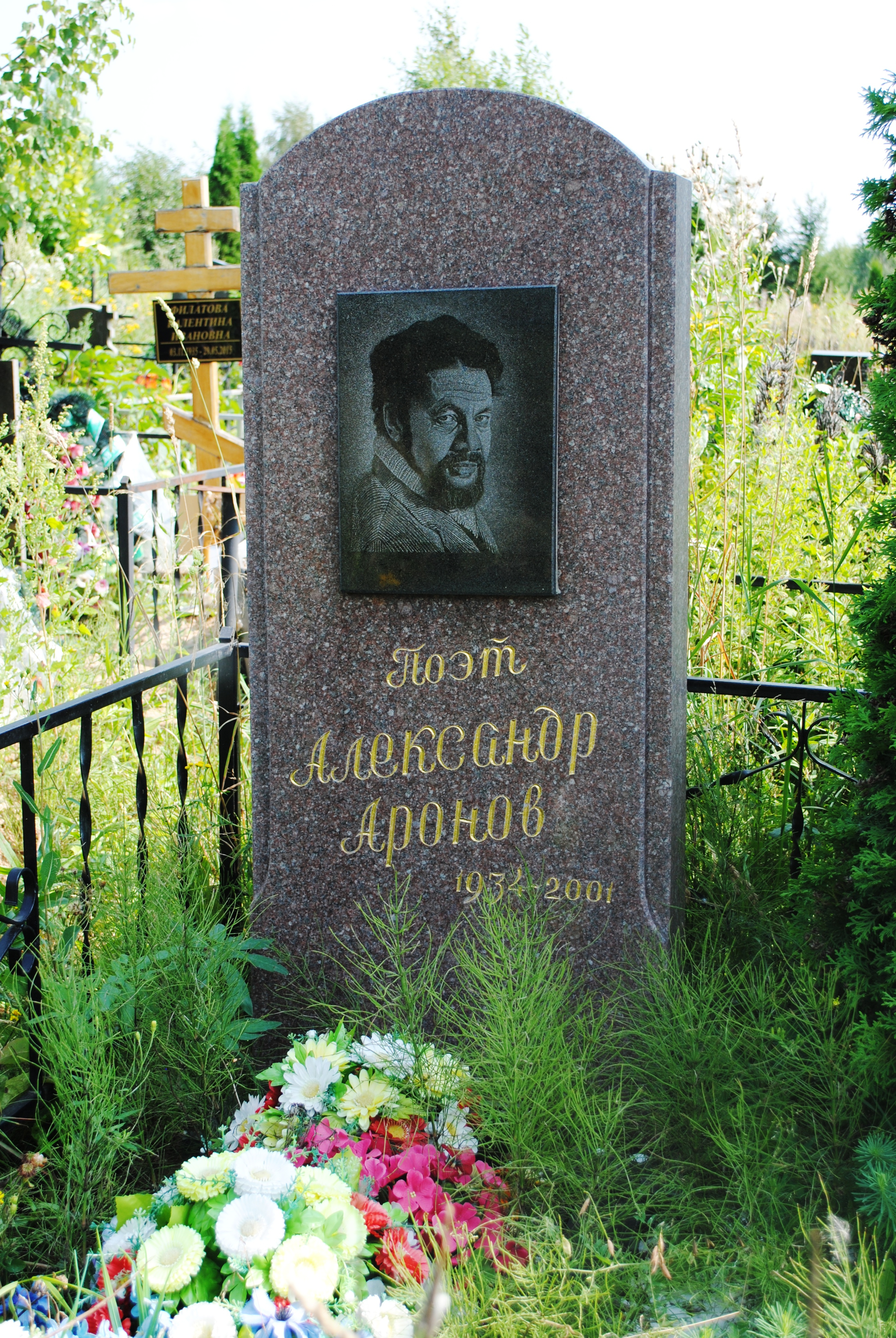 A. Y. Aronov